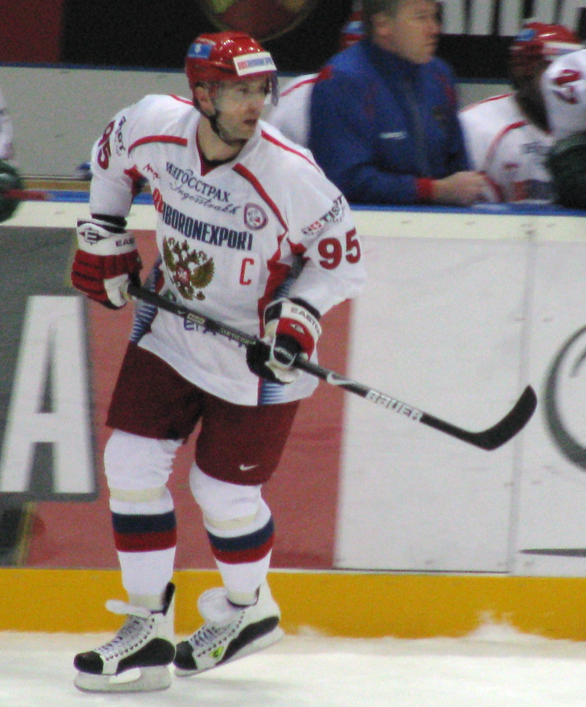 Aleksey Morozov (Russia) in a match agaist Czech Republic